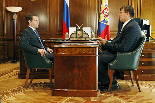 GORKI, MOSCOW DEGION. With Justice Minister Alexander Konovalov.